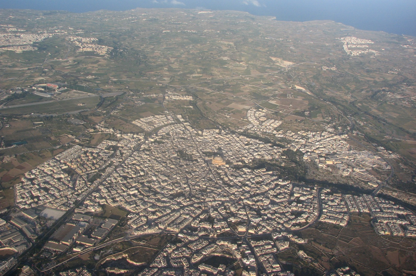 Aerial view of Mosta and the region south of the town to the southern coast of Malta. The Dome of the Rotunda of Mosta can be clearly seen in the center of the town. In the upper left side the national stadium of Malta can be also seen and the citadel of Mdina - the old capital of Malta.